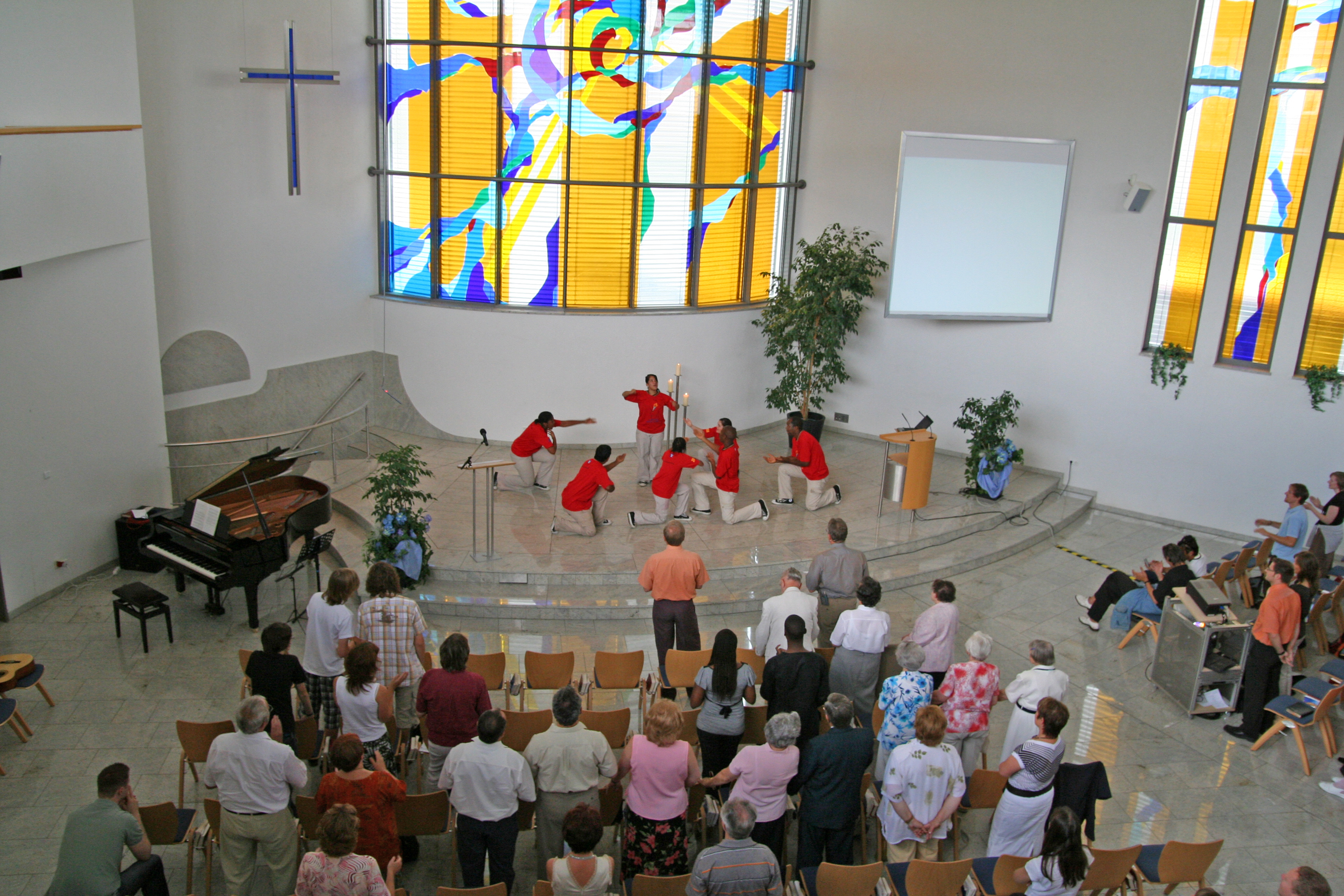 IThemba performs in the baptistchurch "Am Südring" in Nuremberg.